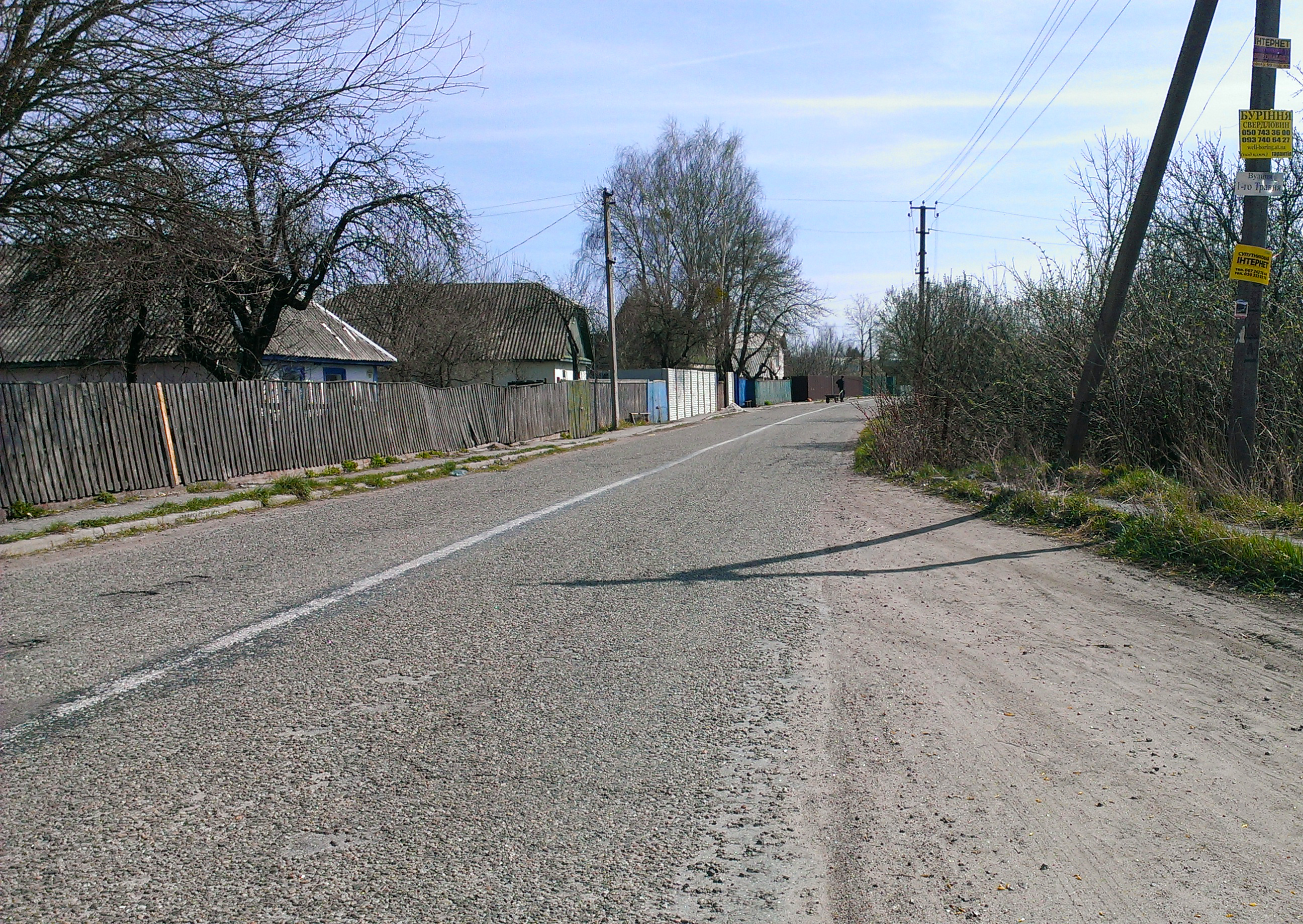 Village street in Nebelytsia